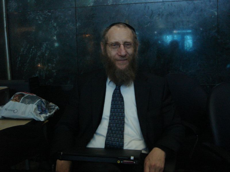 Image from Flickr:[1] Author: David Lisbona.